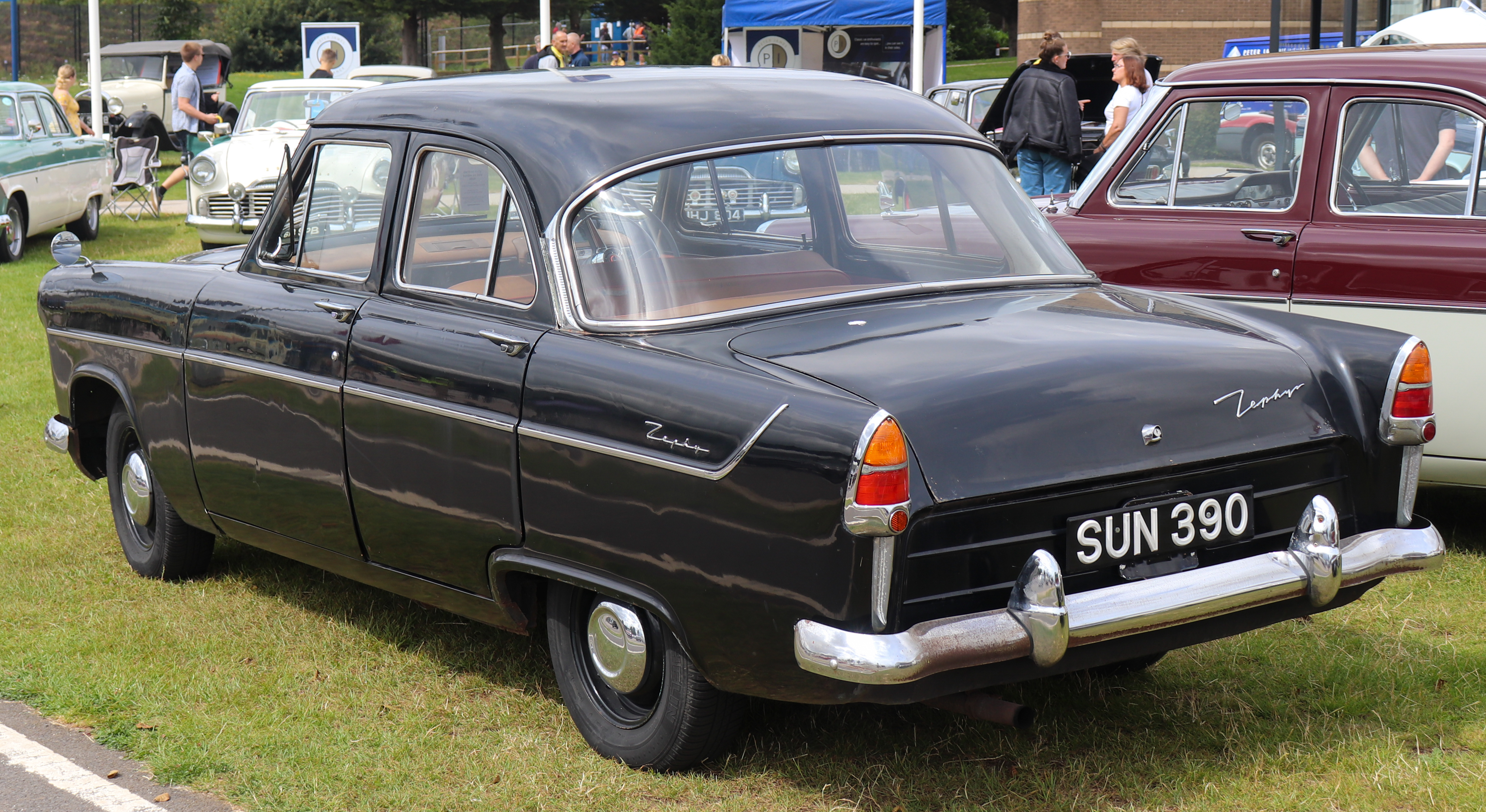 1958 Ford Zephyr Mark II 2.5 Rear Taken at the British Motor Museum Old Ford Rally 2019, Gaydon